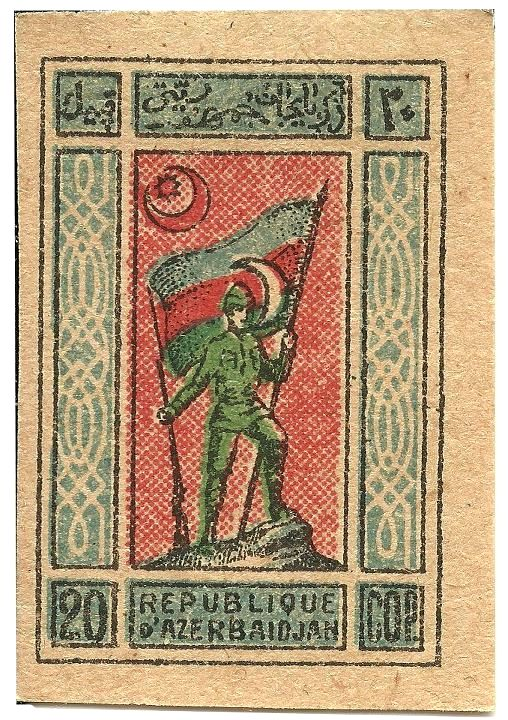 Stamp of Azerbaijan Democratic Republic. 20 cop.1919